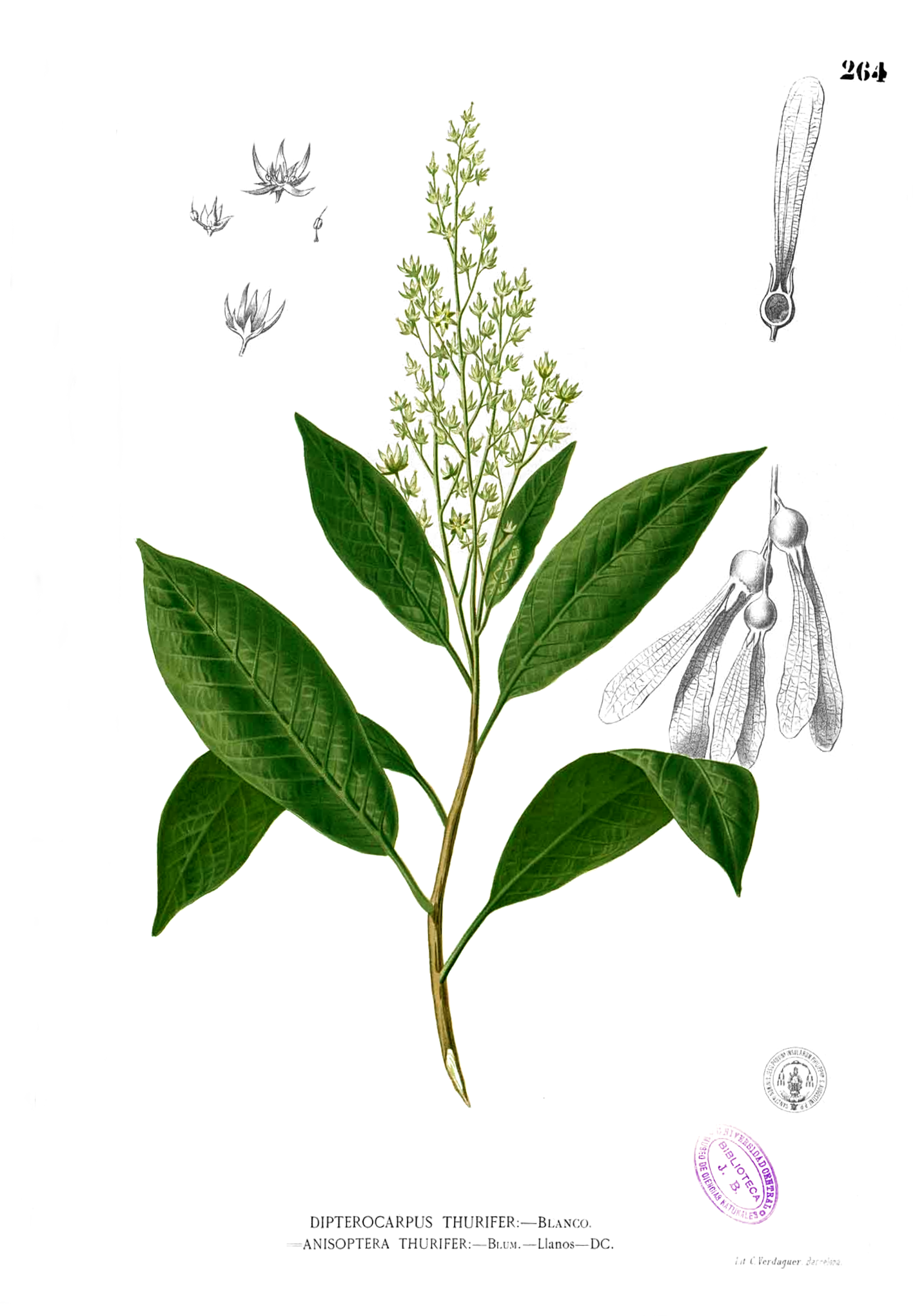 Anisoptera thurifera. Plate from book.